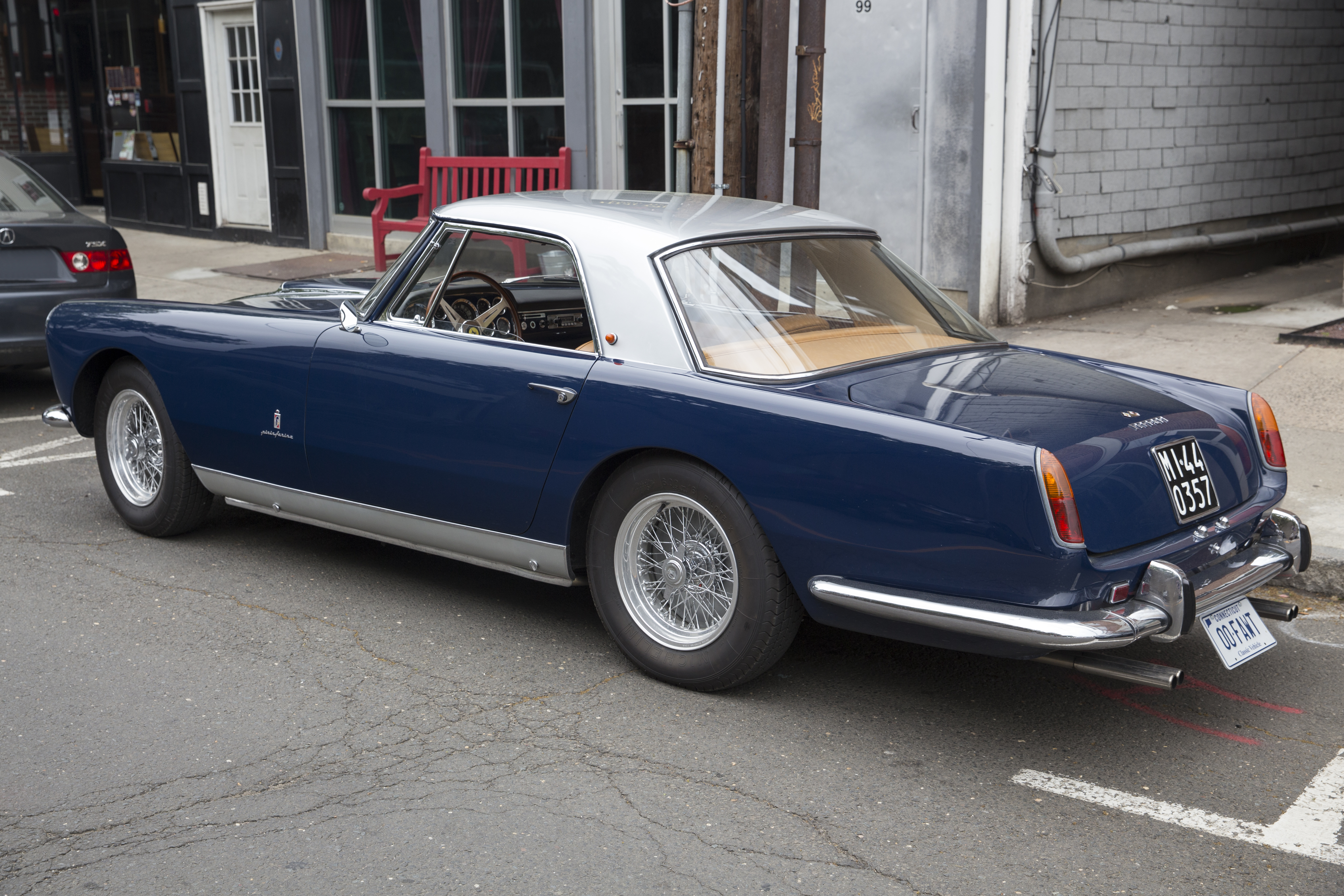 1959 Ferrari 250 GT Pinin Farina Coupé. See category description for more details. A breathtakingly beautiful vehicle.